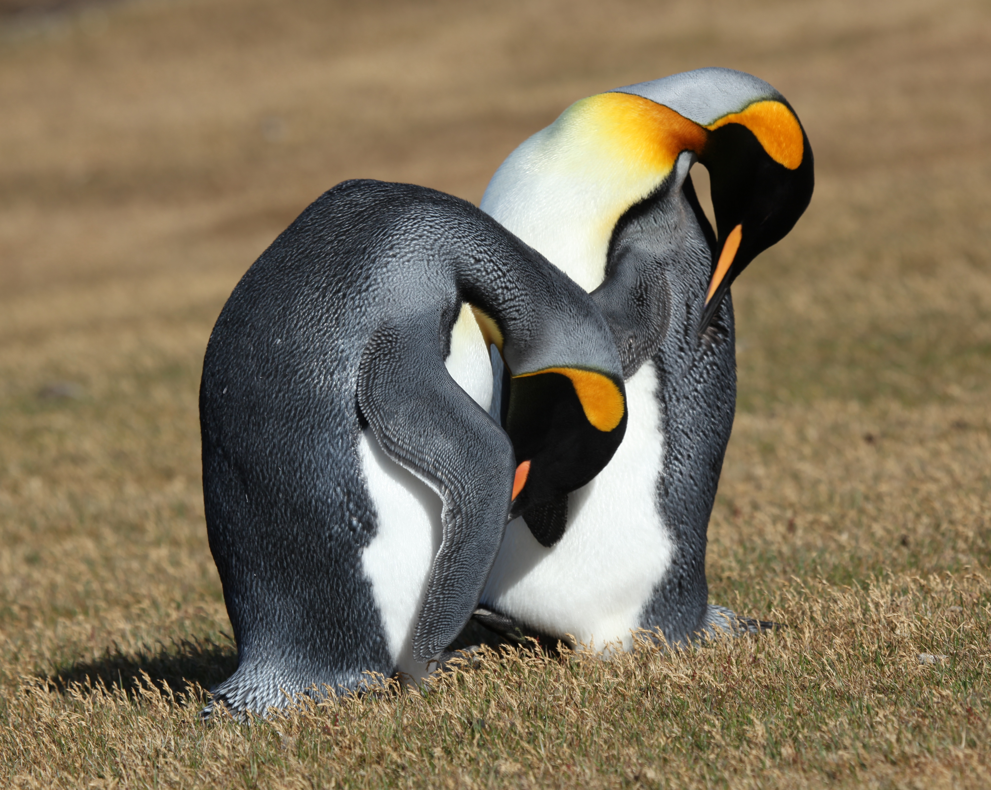 In the Falkland Islands.